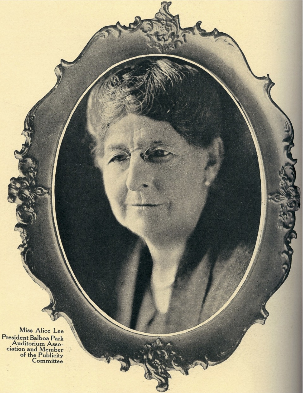 Alice Lee